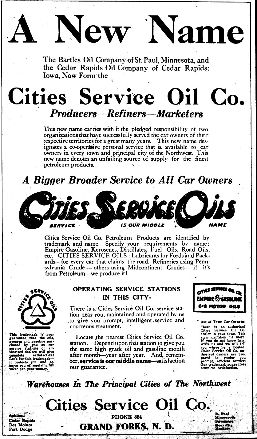 Cities Service ad from a North Dakota newspaper.